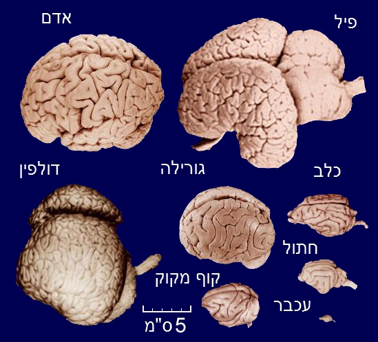 Comparison between brain sizes. Captions in Hebrew.